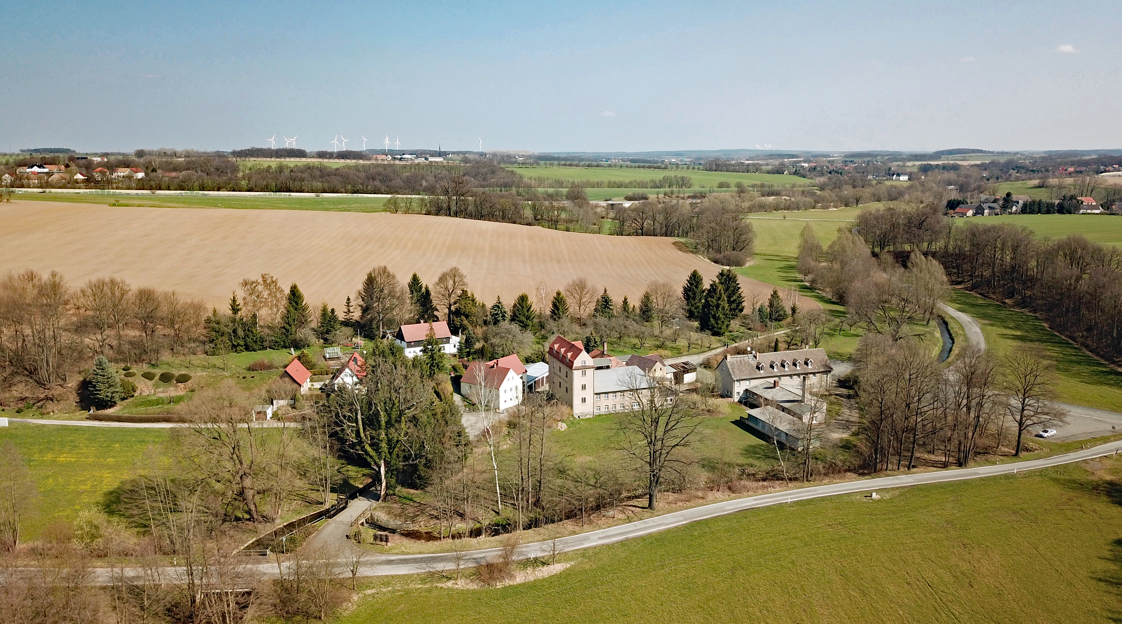 Fehrmann-Mühle Coblenz (Göda, Saxony, Germany) Hornjoserbsce: Powětrowy wobraz Fehrmannoweho młyna w Koblicach